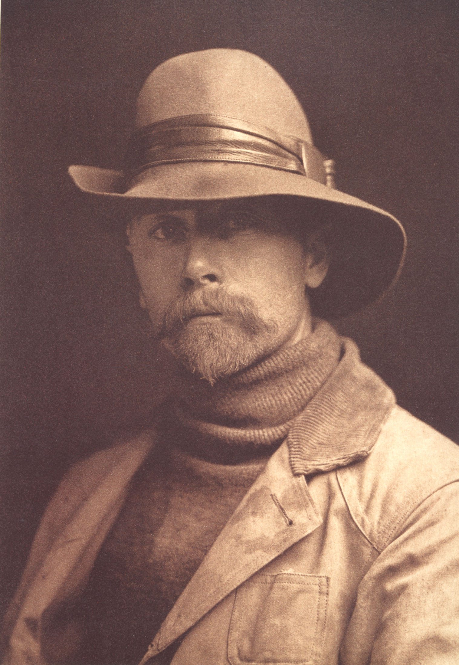 Edward S. Curtis self portrait. 1899. Photogravure